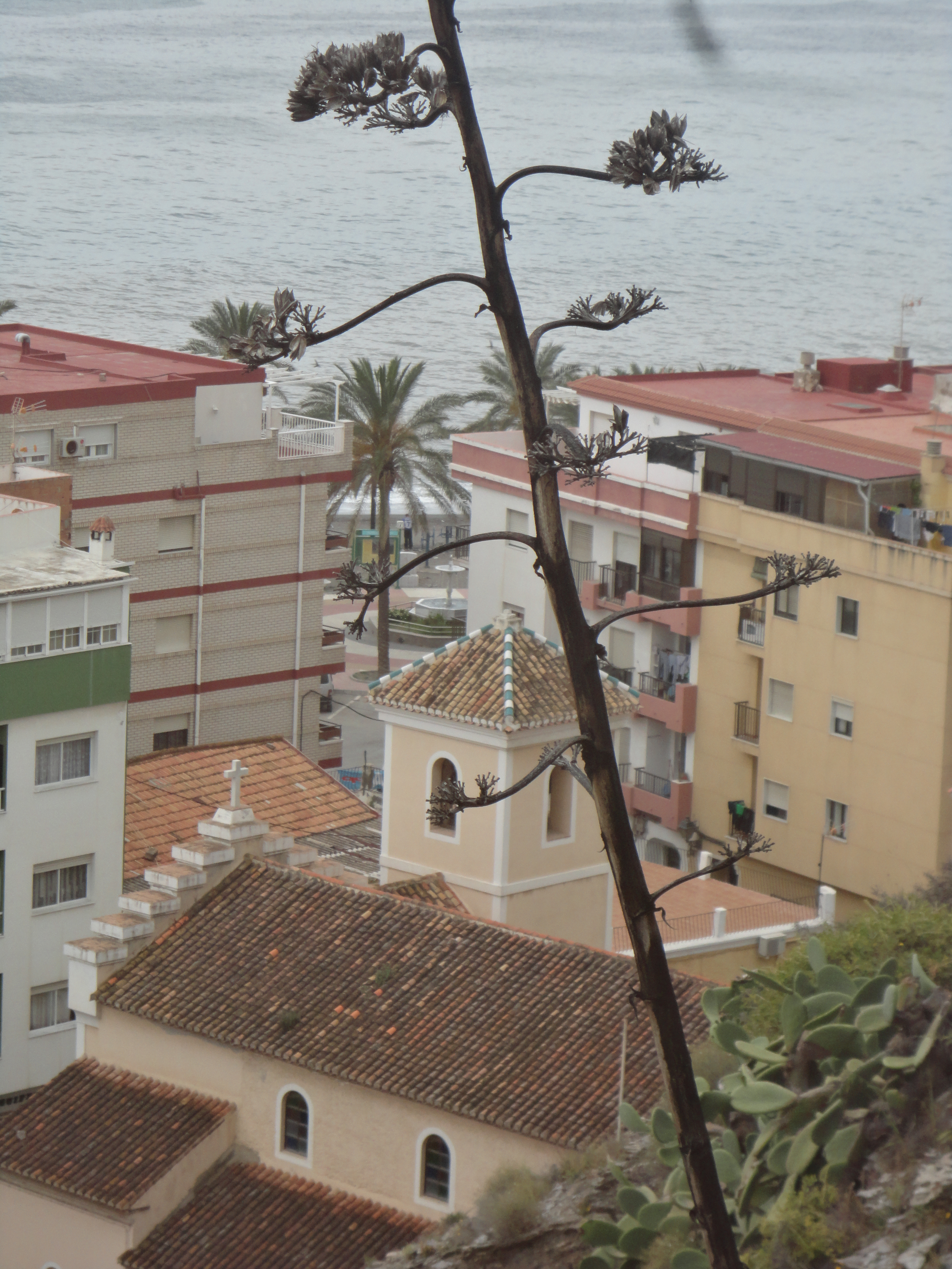 La Rabita